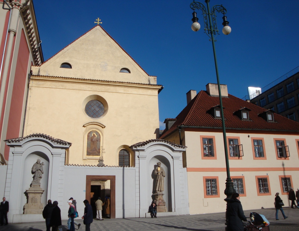 Prague New Town, St Joseph church